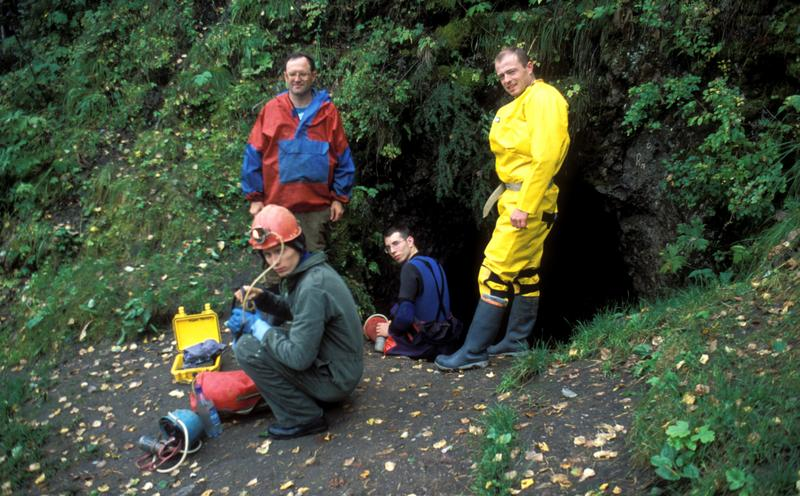 At the entrance to cave Bolshaya Oreshnaya. Foreground Dmitry Perliev, background left to right Igor Burmak, Clewin Griffith (Great Britain), Hugh Penney (Great Britain).